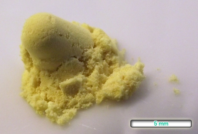 Photo of Triamterene, pure